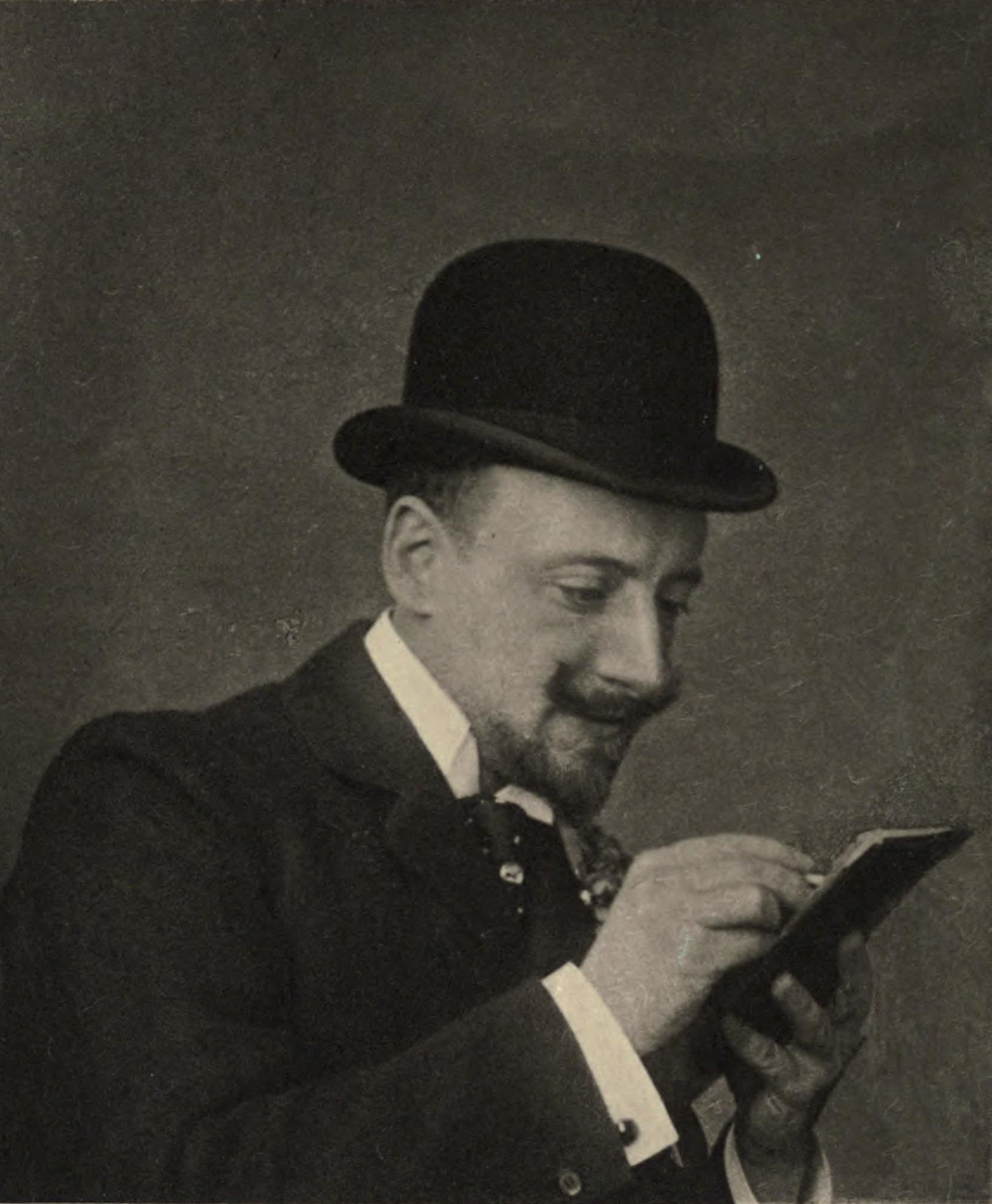 Picture of Gabriele D'Annunzio